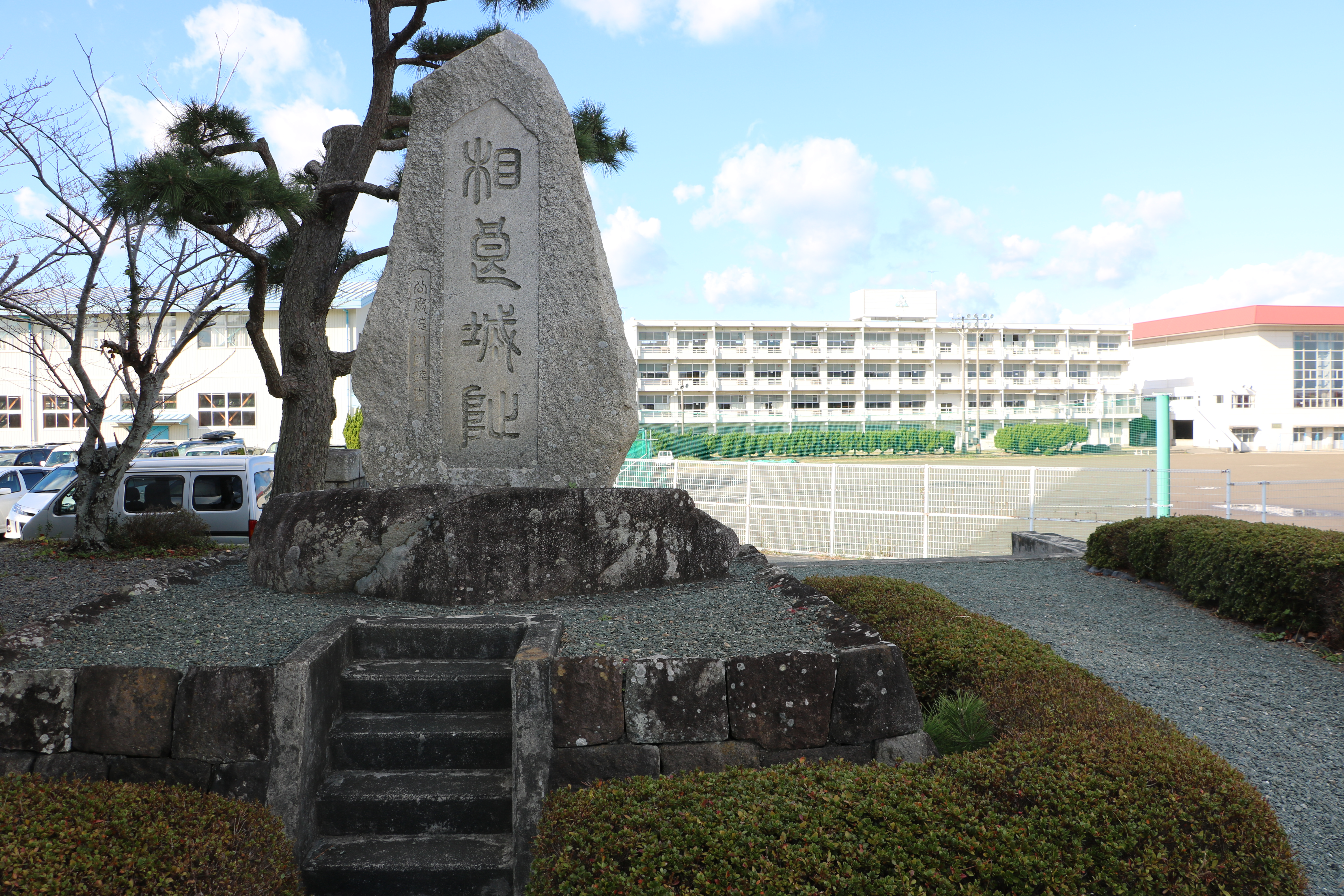 Sagara Castle Ruins Monument and Sagara Junior High School